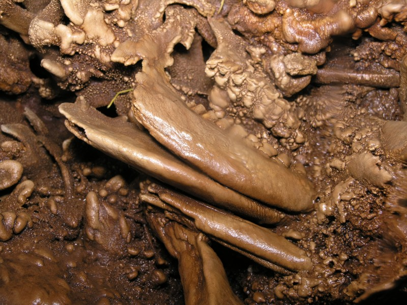 Deer (Megalacero) Skull in Deer Cave in Punta Giglio Alghero Sardinia, discovered by Marco Busdraghi in 1995